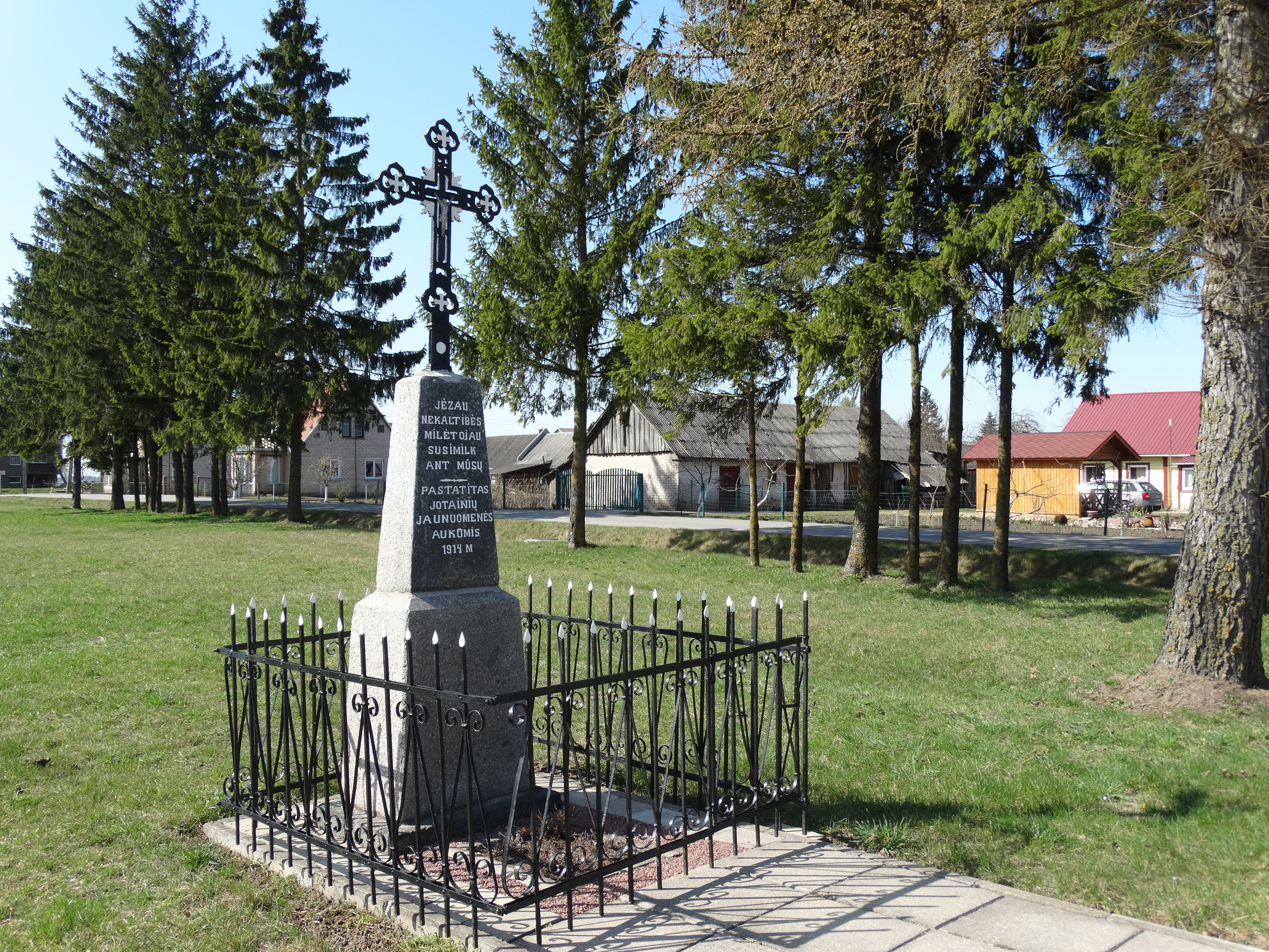 Cross, Jotainiai, Panevėžys District, Lithuania